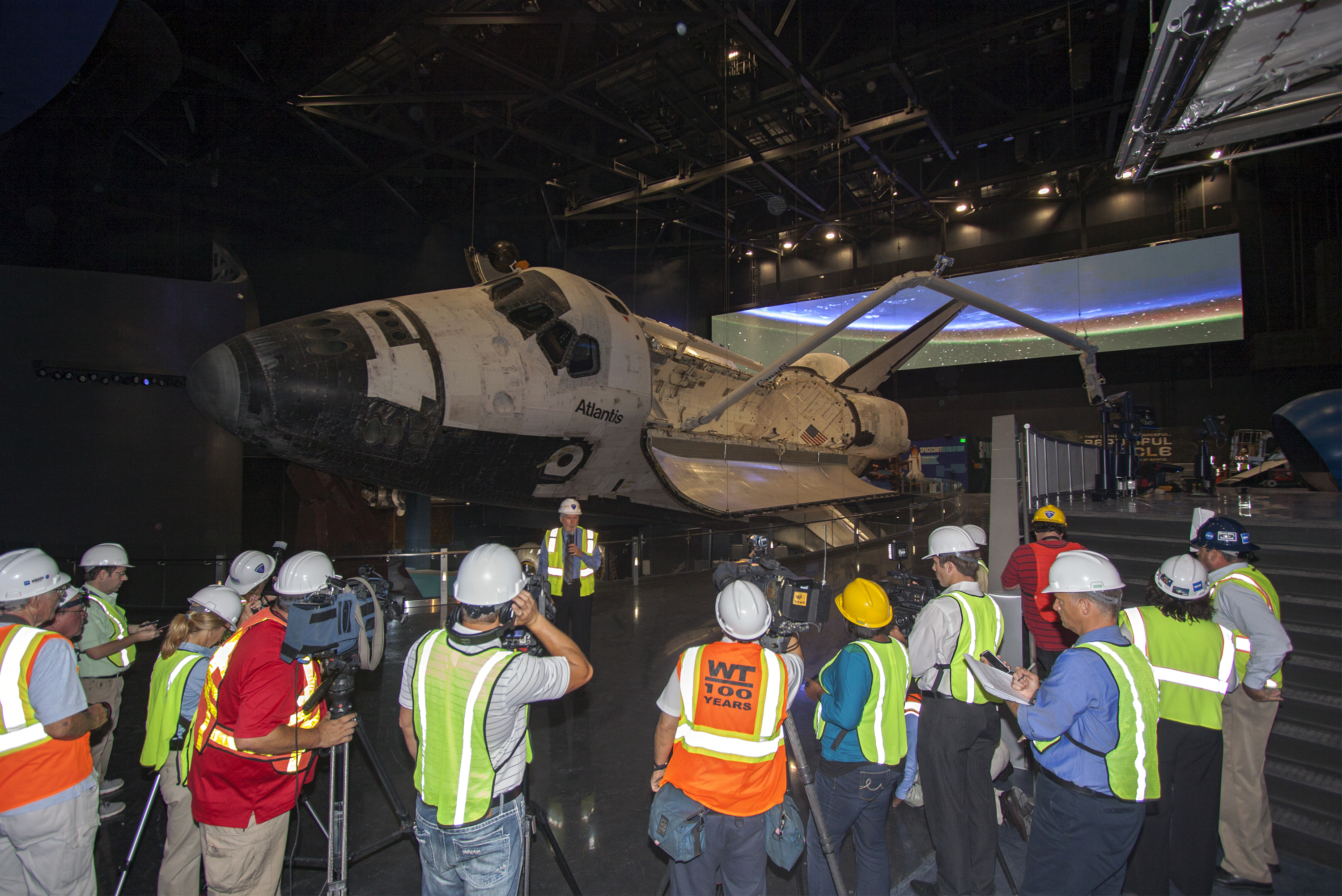 CAPE CANAVERAL, Fla. – At the Kennedy Space Center Visitor Complex in Florida, Bill Moore, chief operating officer with Delaware North Companies Parks & Resorts, speaks to members of the media during a tour of the new “Space Shuttle Atlantis” exhibit, a 90,000-square-foot facility, scheduled to open June 29, 2013. Behind Moore, space shuttle Atlantis’ payload bay doors are open and the orbiter has been tilted at a 43.21° angle to the portside and supported by special jacks to elevate it 26 feet from the ground. The robotic arm has been installed in the payload bay. The new $100 million facility will include interactive exhibits that tell the story of the 30-year Space Shuttle Program and highlight the future of space exploration. Visitors to the exhibit will get an up close look at Atlantis with its payload bay doors open, similar to how it looked in space.